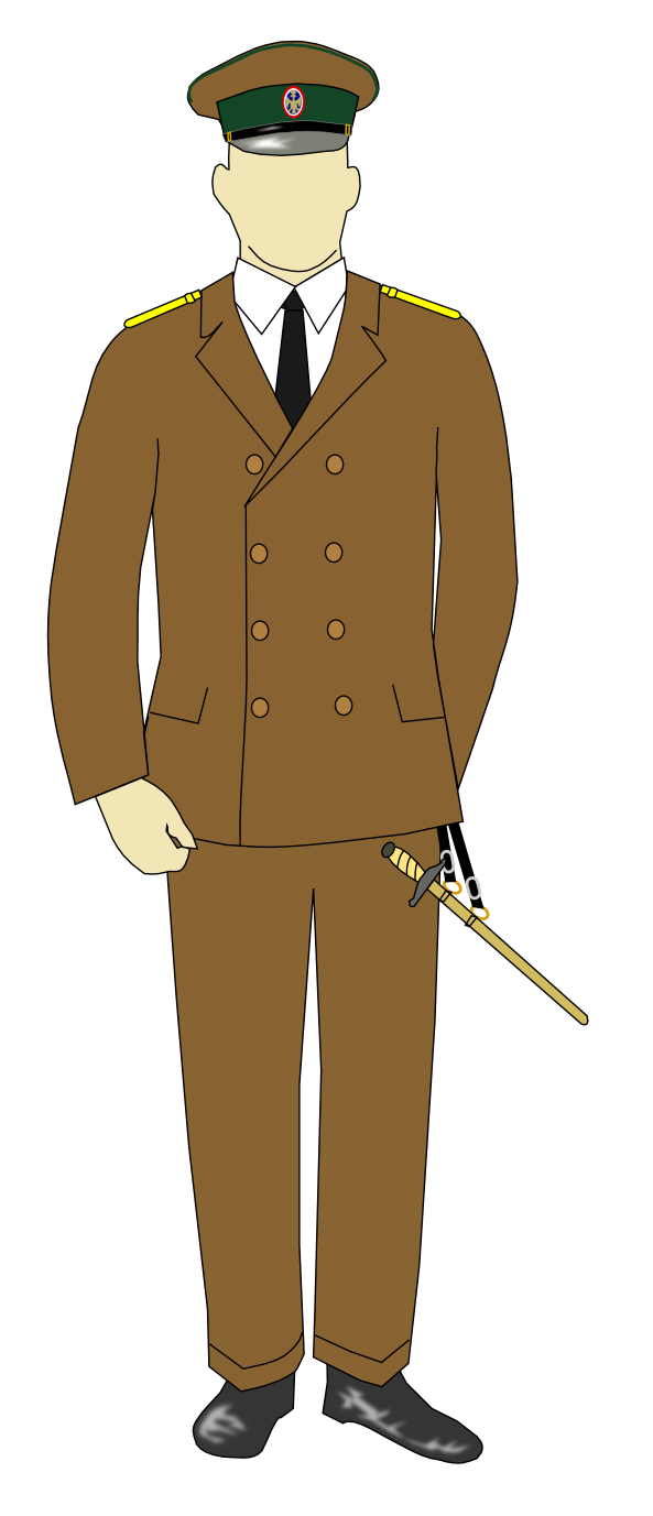 Uniform of Tax official in Yugoslavia, 1933.Look in descriptions in Vrišer, Sergej. 1991. Uniforme v zgodovini II: Civilne uniforme na Slovenskem. Ljubljana: Založba Park. Descripions on Pg: 44-45. To compare late style of prewar yugoslavian uniforms look also in the: Pravilnik o službeni obleki in orožju uslužbencev finančne kontrole in dajanju državne podpore za nabavo službene obleke. Službeni list kraljevske banske uprave Dravske banovine, 101-VII/1936.